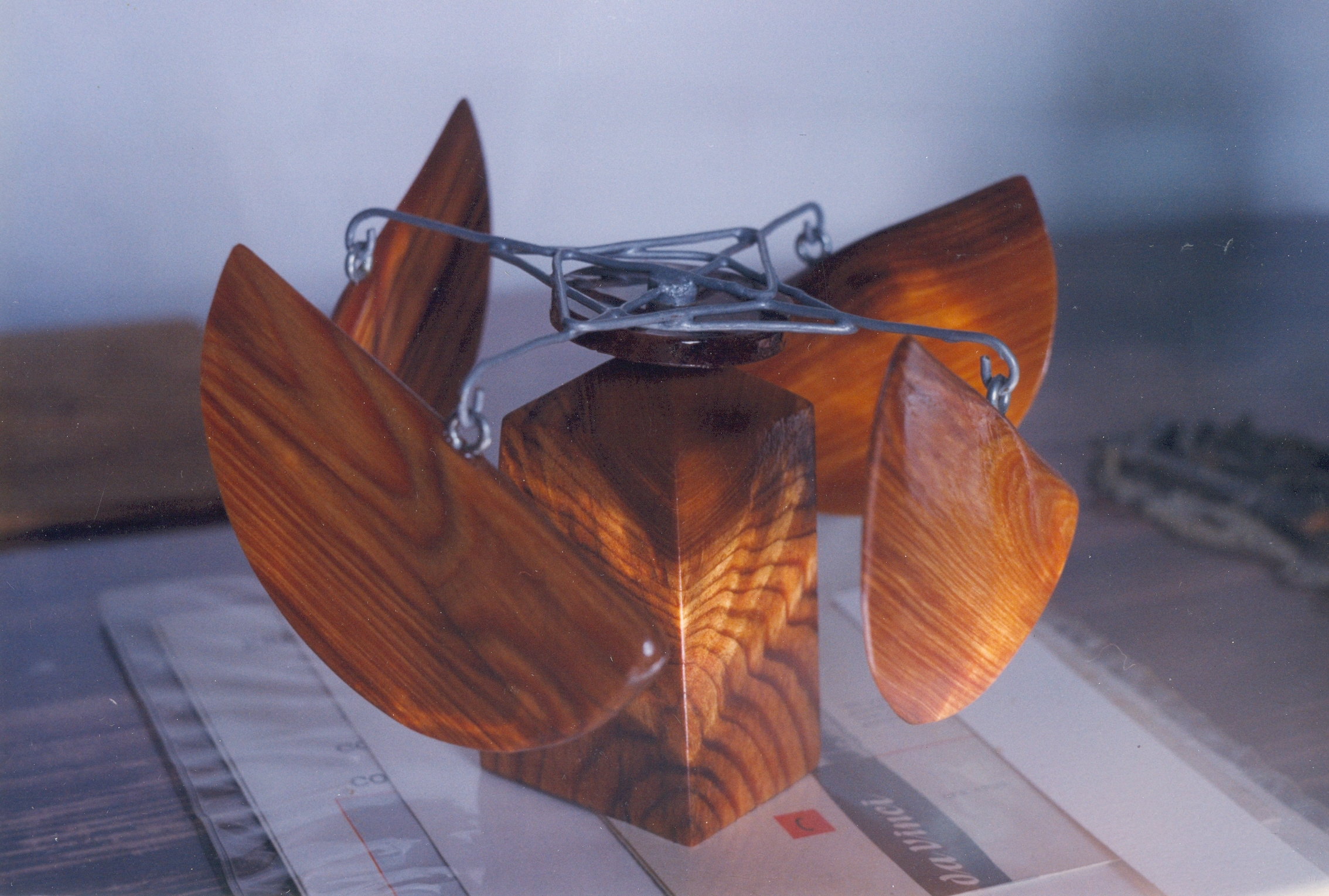 Whirligig